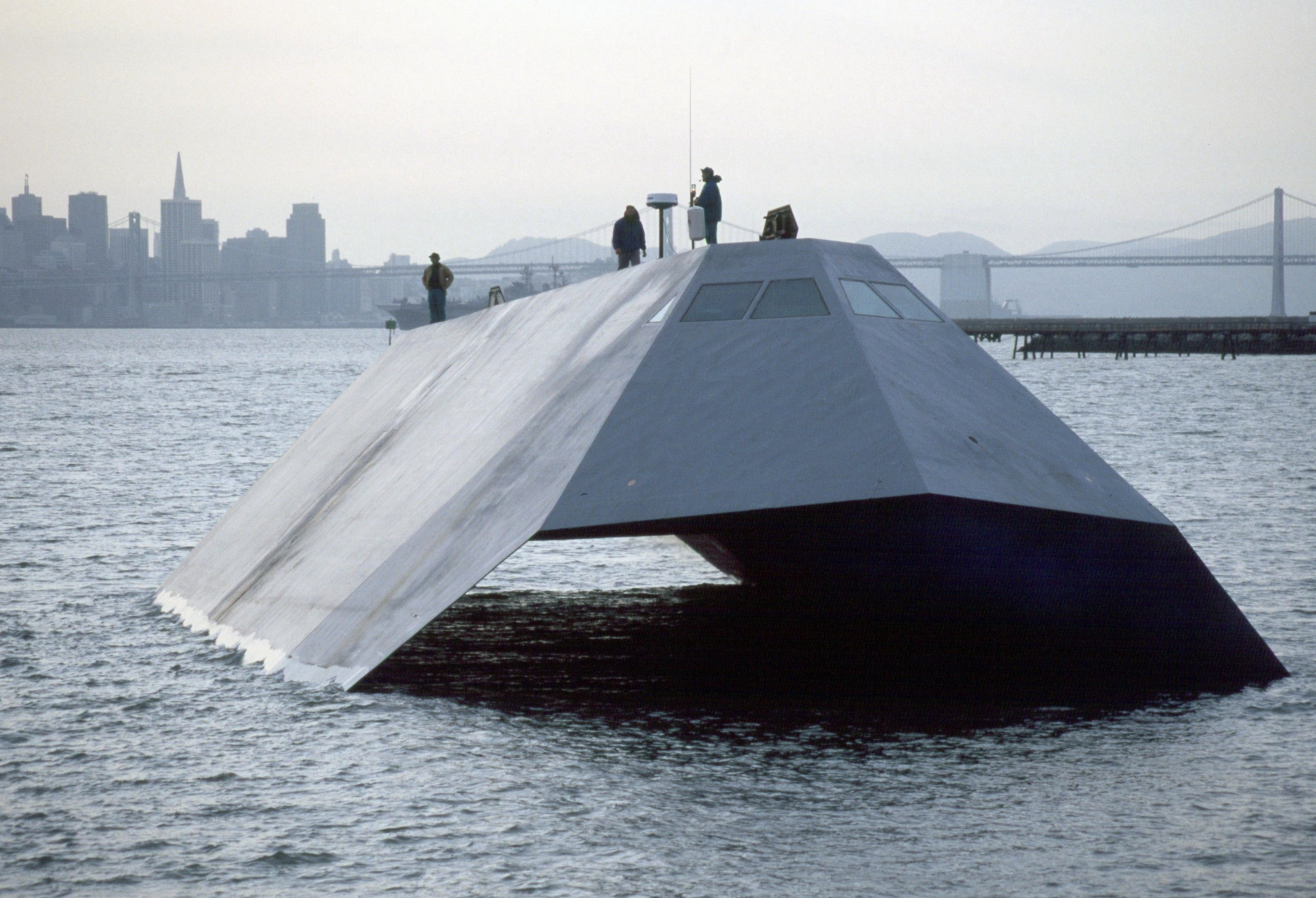 San Francisco, Calif. (Mar. 18, 1999) The U.S. Navy Sea Shadow (IX-529) craft gets underway at dusk to participate in events associated with Fleet Battle Experiment-Echo, sponsored by Commander, Third Fleet and the Maritime Battle Center. Sea Shadow was reactivated this year to support evaluation of future Navy ship designs and technologies, including automation for reduced manning, propulsion concepts, and characteristics of surface ship stealth.